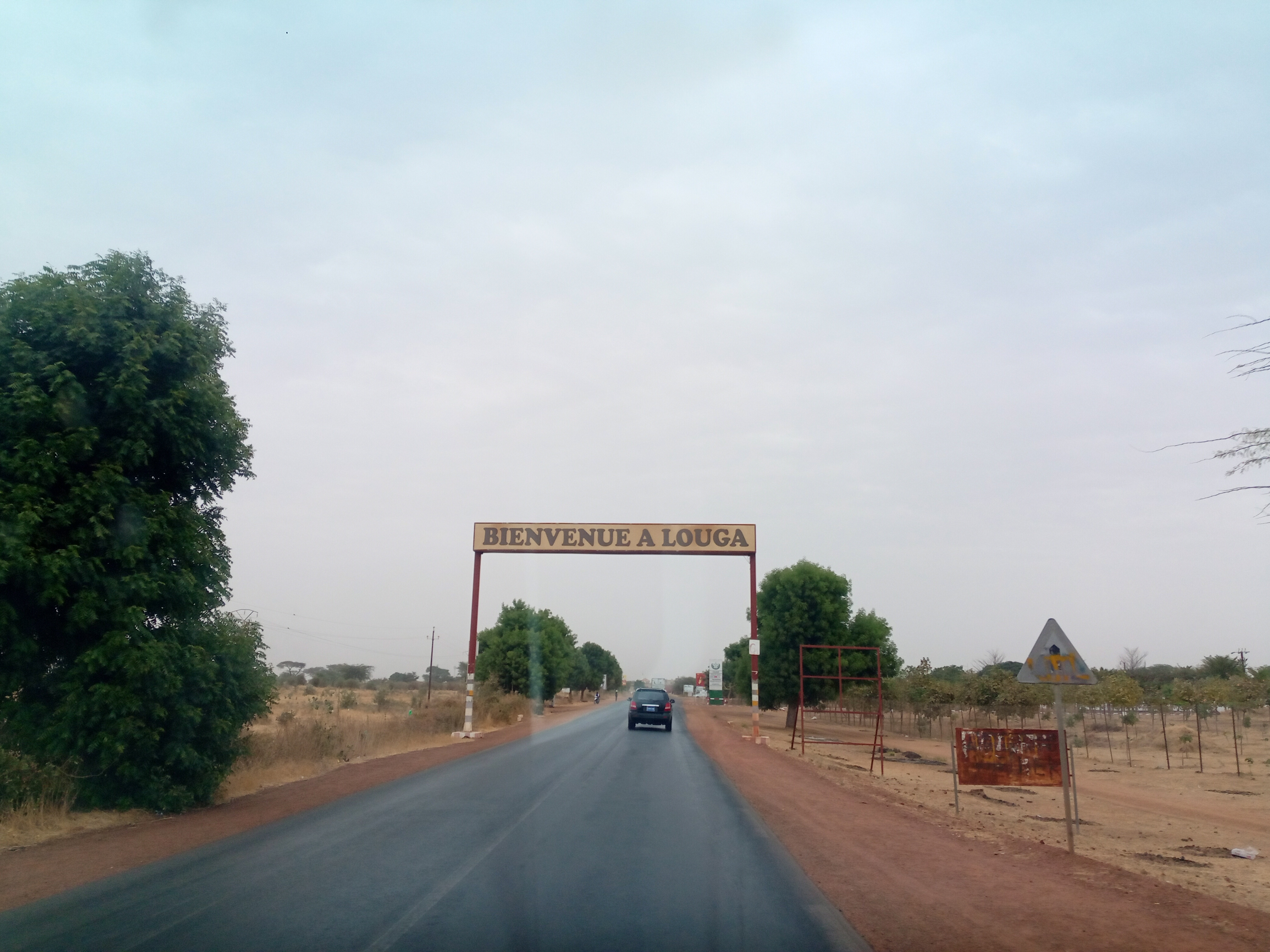 This is an image with the theme "Africa on the Move or Transport" from: Senegal